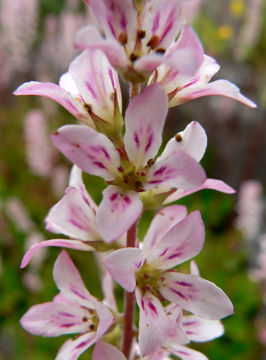 Photo of Francoa sonchifolia at the UBC Botanical Garden